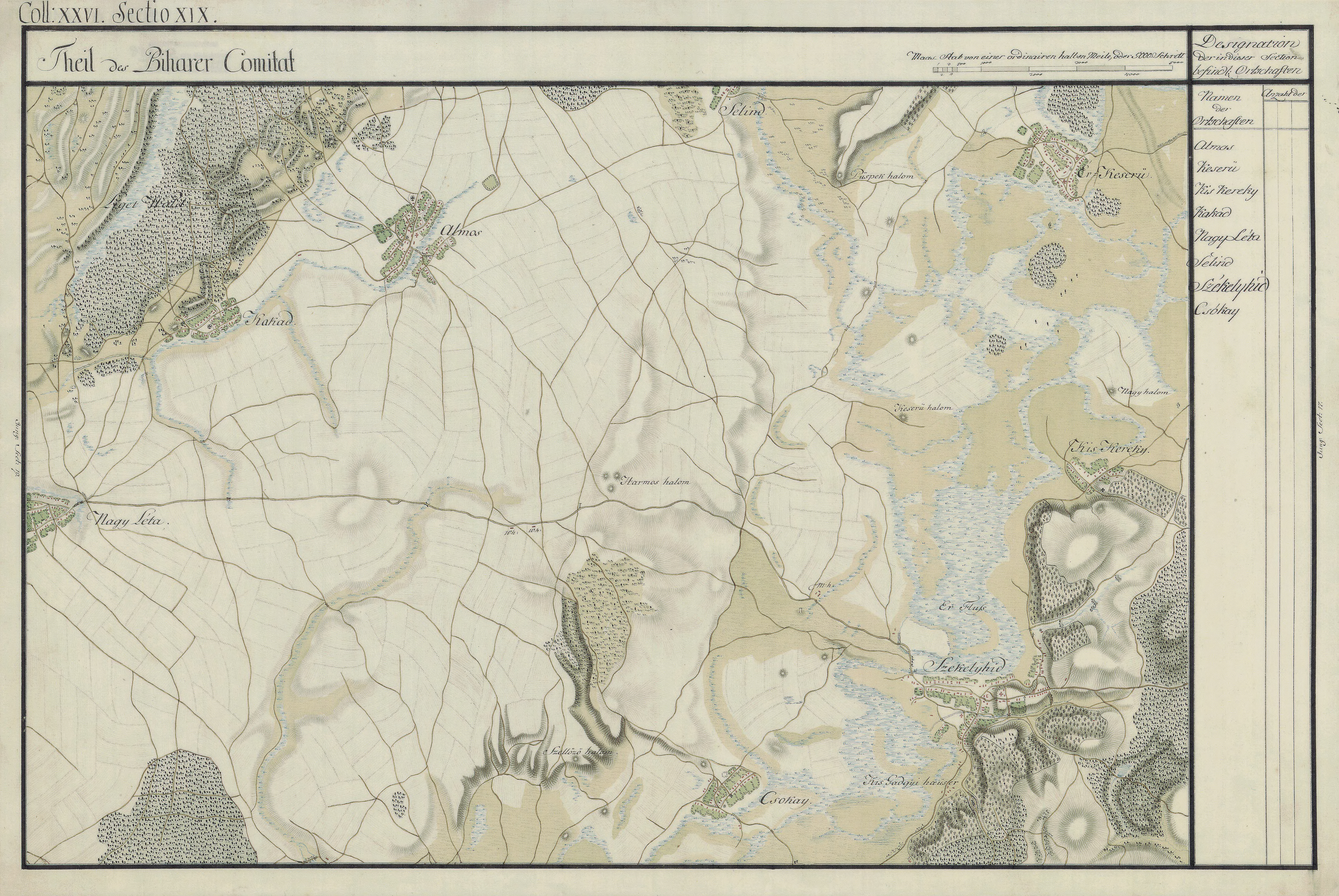 Bihor County, 1782-85. Josephinische Landesaufnahme pg.26-19